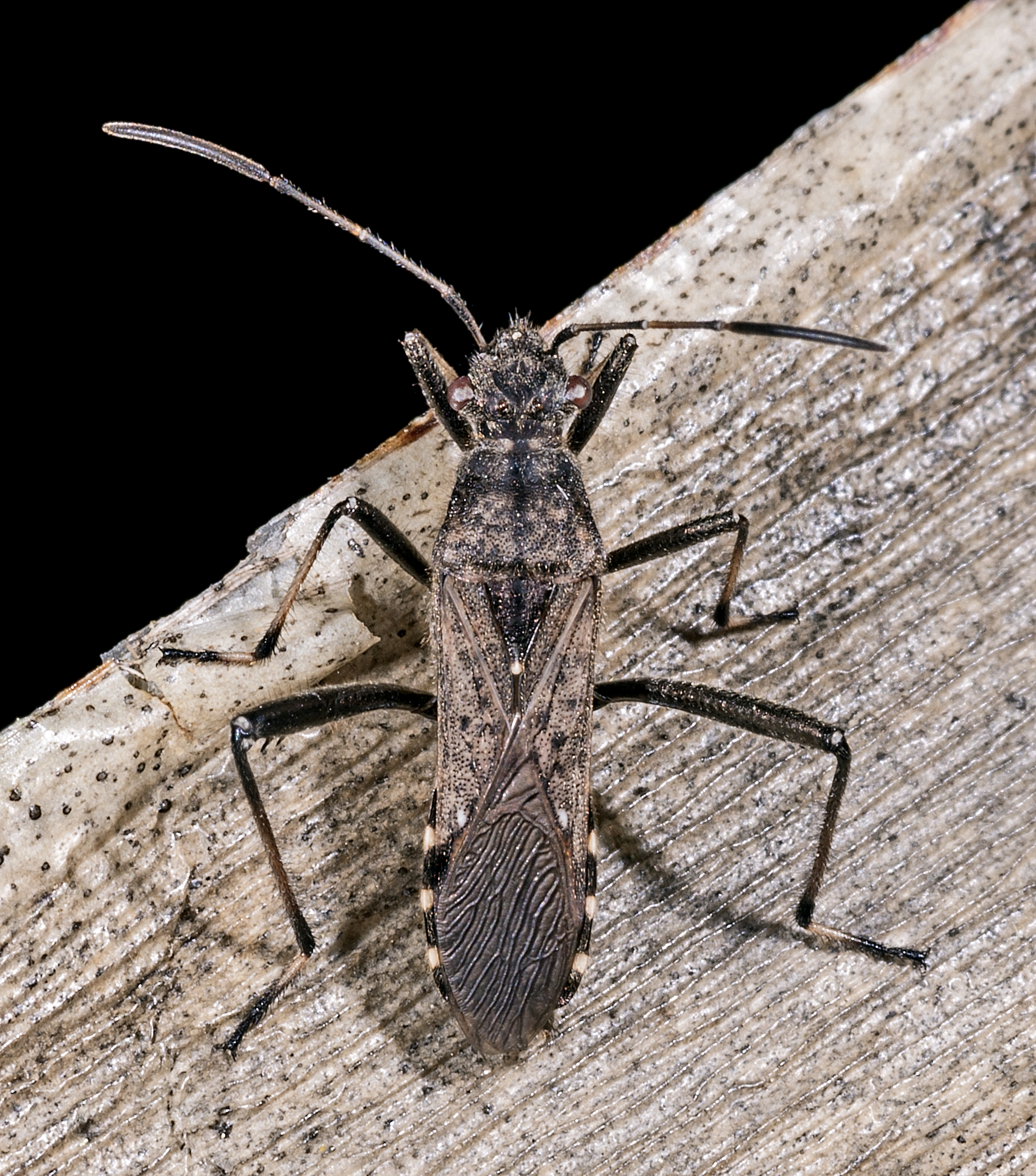 Alydus calcaratus,dorsal view.